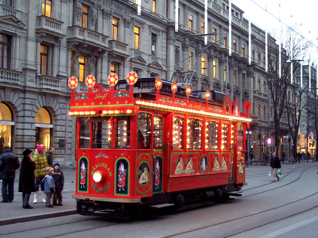 Trams in Zürich: The Märlitram at Paradeplatz. In the weeks before Christmas, this old tram runs on a very popular special service for children around the city centre. The drivers are dressed as Father Christmas and the children are attended by women dressed as angels. Parents are not allowed on board, but collect their children from the departure point after the run.